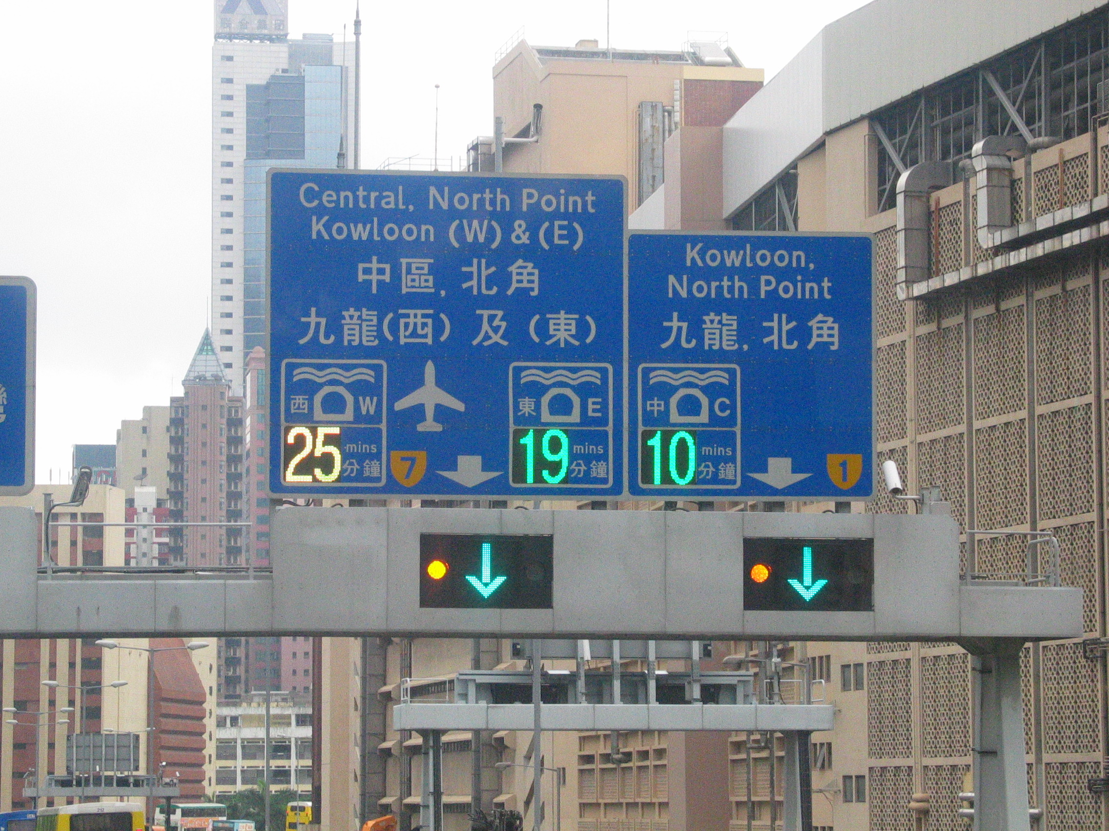 The traffic time to each cross hurbour tunnel displayed by a electronic display on a traffic direction near aberdeen tunnel of Hong Kong